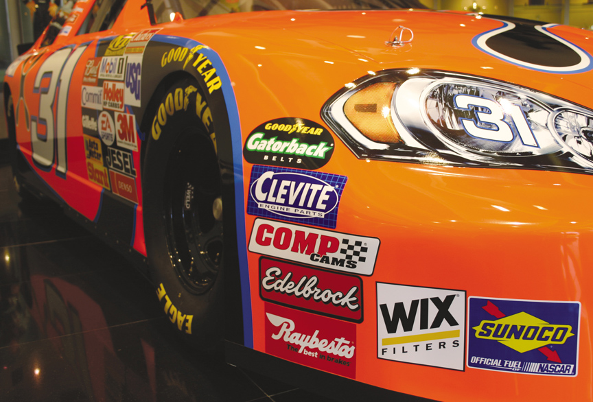 NASCAR racecar fender Licensing To head off any stupid arguments before they even fester as to the legally of showing all these logos, every company represented by a sticker/logo in this picture not only GRANTS permission for their logos to be shown, but, in fact, DEMANDS that it be shown in its entirety as part of their contract with NASCAR.